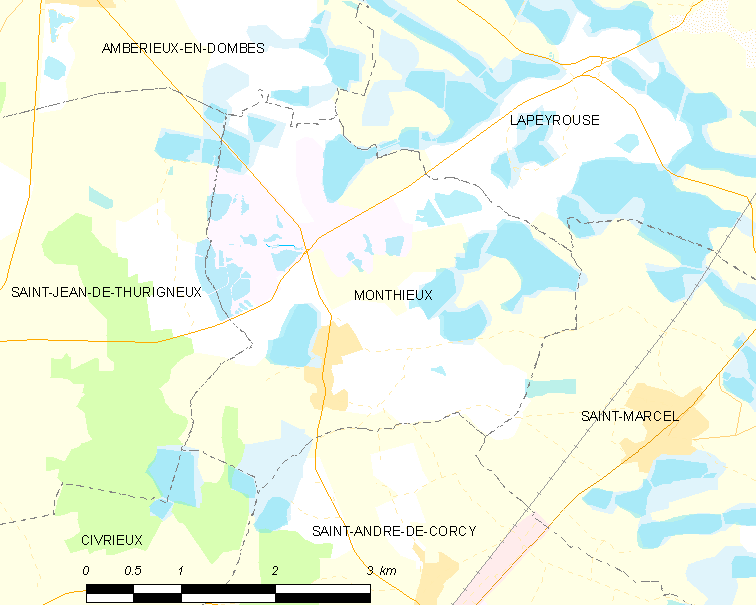 Map of French commune: Monthieux Map commune FR insee code 01261.png